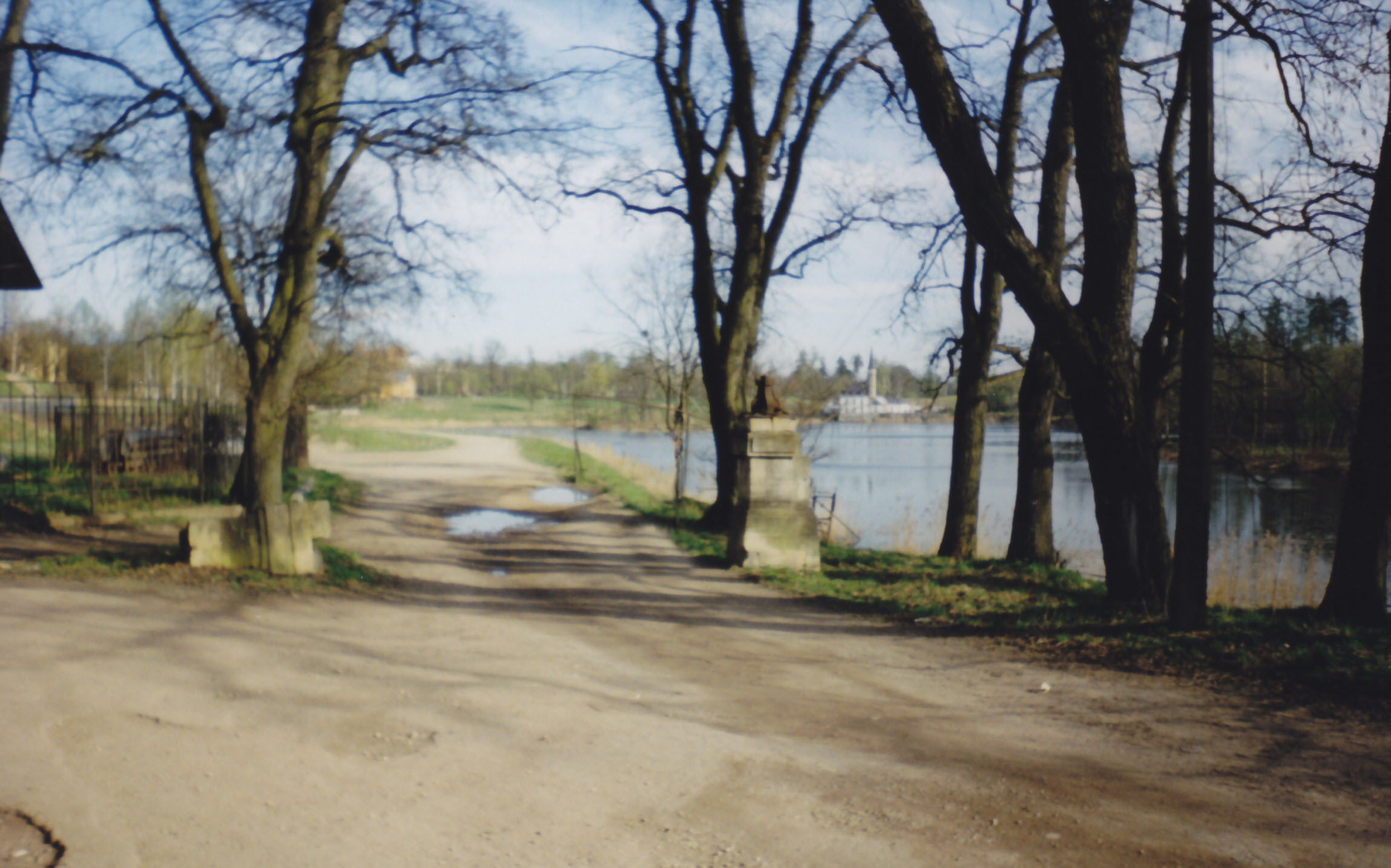 Entrance to the Priory Palace Gatchina, 2001